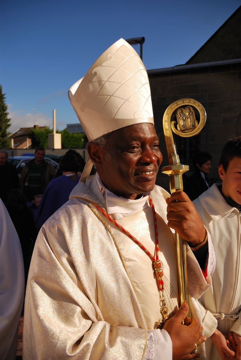 Cardinal Peter Turkson in Eckelrade, NL